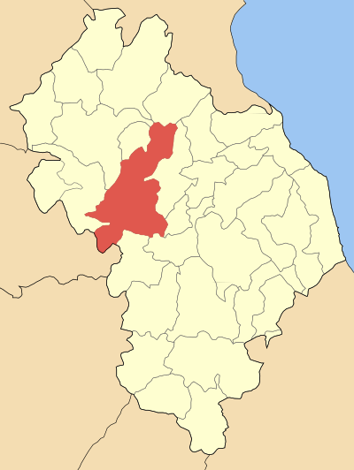 Locator map of Tyrnavou municipality (Δήμος Τυρνάβου) at Larisa perfecture, Greece.